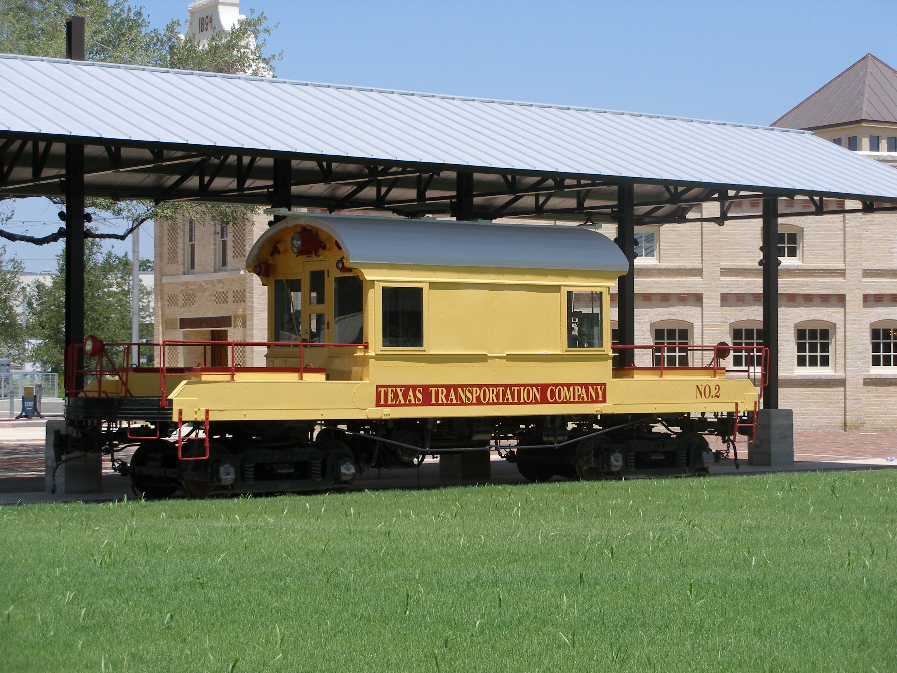 Engine #2 of the Texas Transportation Company. Freshly restored, the engine is now on static display at the Pearl Brewery in San Antonio, Texas. One of the last few remaining electric locomotives, Engine #2 is a prestine example of a by-gone era in railroad history. Engine was restored down to every nut and bolt by the Trans-Texas Rail Shop here in San Antonio. Picture taken 18 August 2006.